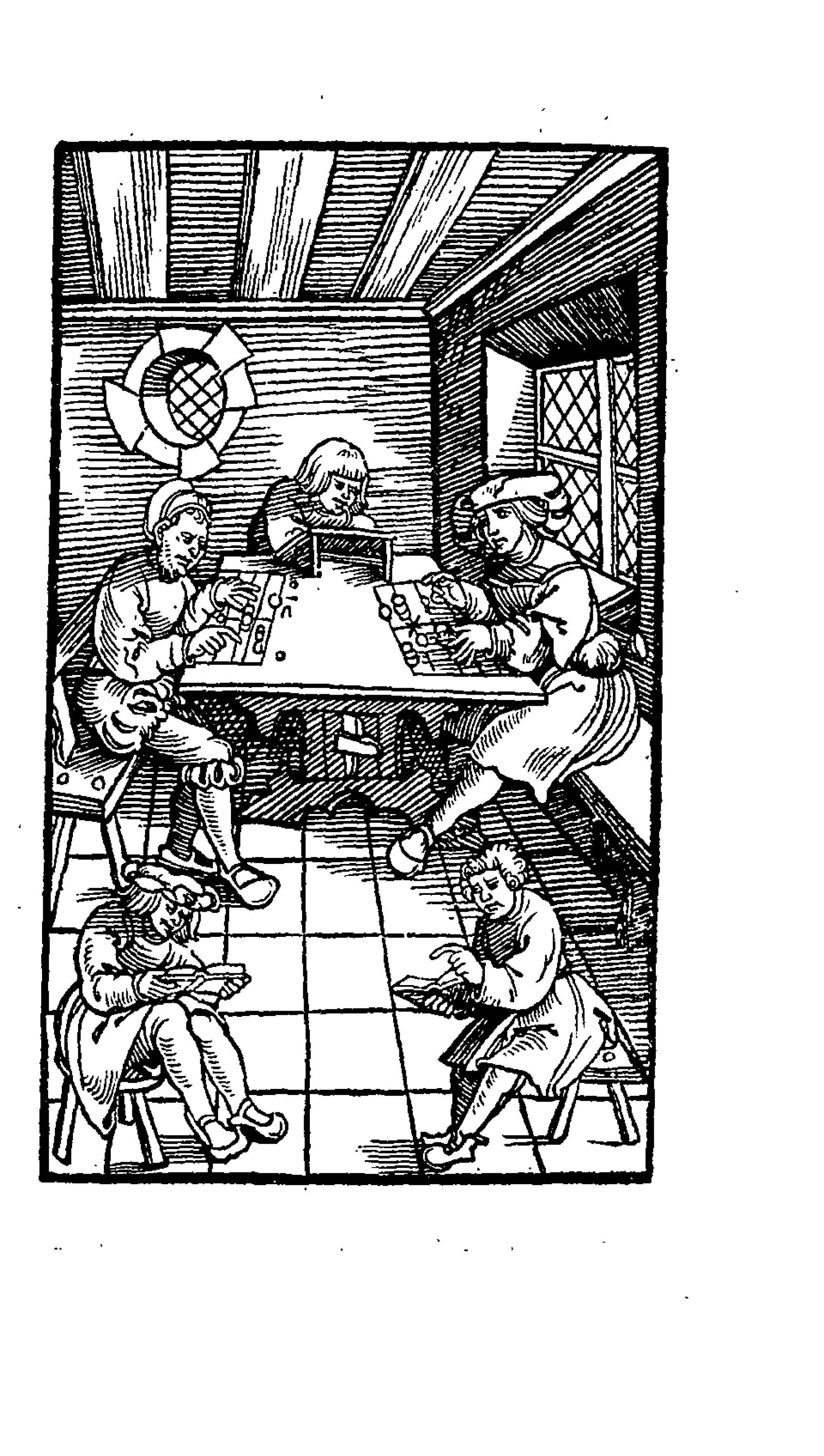 This is a scan of the historical document